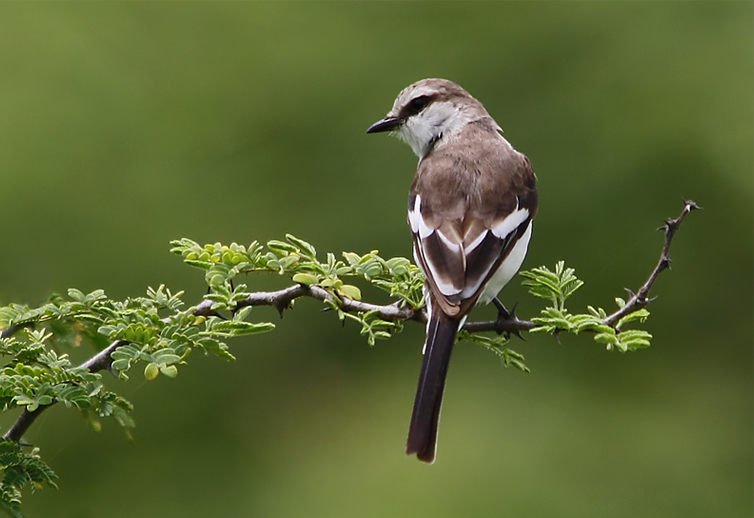 mostly likes thorny scrub area